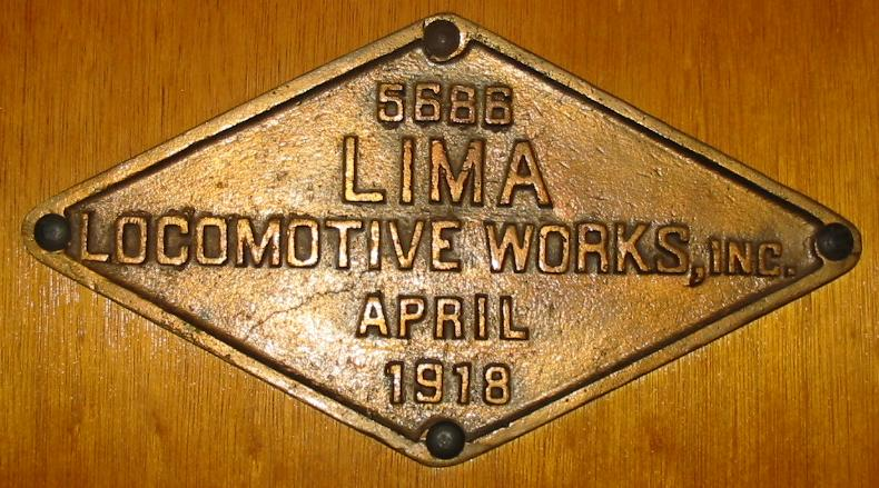 Lima Locomotive Works builder's plate on display at the Mid-Continent Railway Museum, North Freedom, WI. Lima #5686 was New York, Chicago and St. Louis Railroad ("Nickel Plate Road") U-2 class 0-8-0 #200.